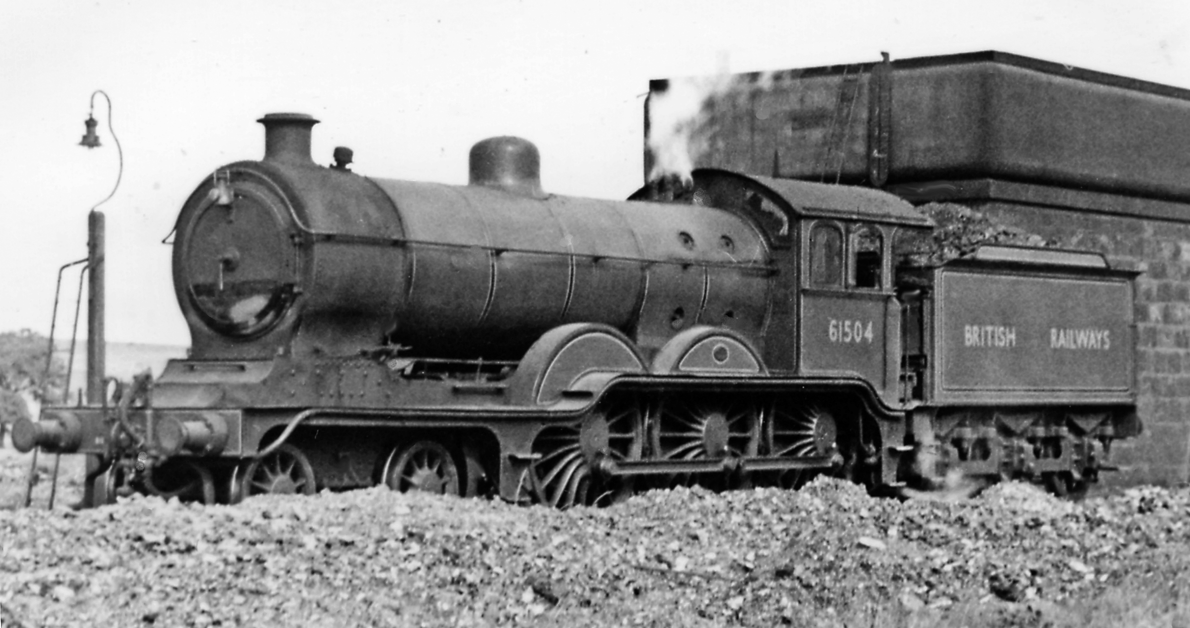 Ex-GE B12/1 4-6-0 at Keith (ex-GN of S) Locomotive Depot. No. 61504 is one of the original ex-GE B12/1 4-6-0s designed by Holden for the GER, used on the GER for c. 20 years but sent latterly (1931 - 1942) to the Great North of Scotland section of the LNER to take over from the GNoSR 4-4-0s the heavier passenger trains between Aberdeen and Elgin. Standing at Keith GNS Depot between the large water-tank and a great pile of ashes, former LNER No. 8504 has survived into BR ownership: it was built 5/1912, re-boilered as B12/4 in 3/45 and withdrawn in 6/50. In 1947, the Depot had an allocation of 28 engines:- 5 4-6-0, 21 4-4-0 and 2 0-6-0T.